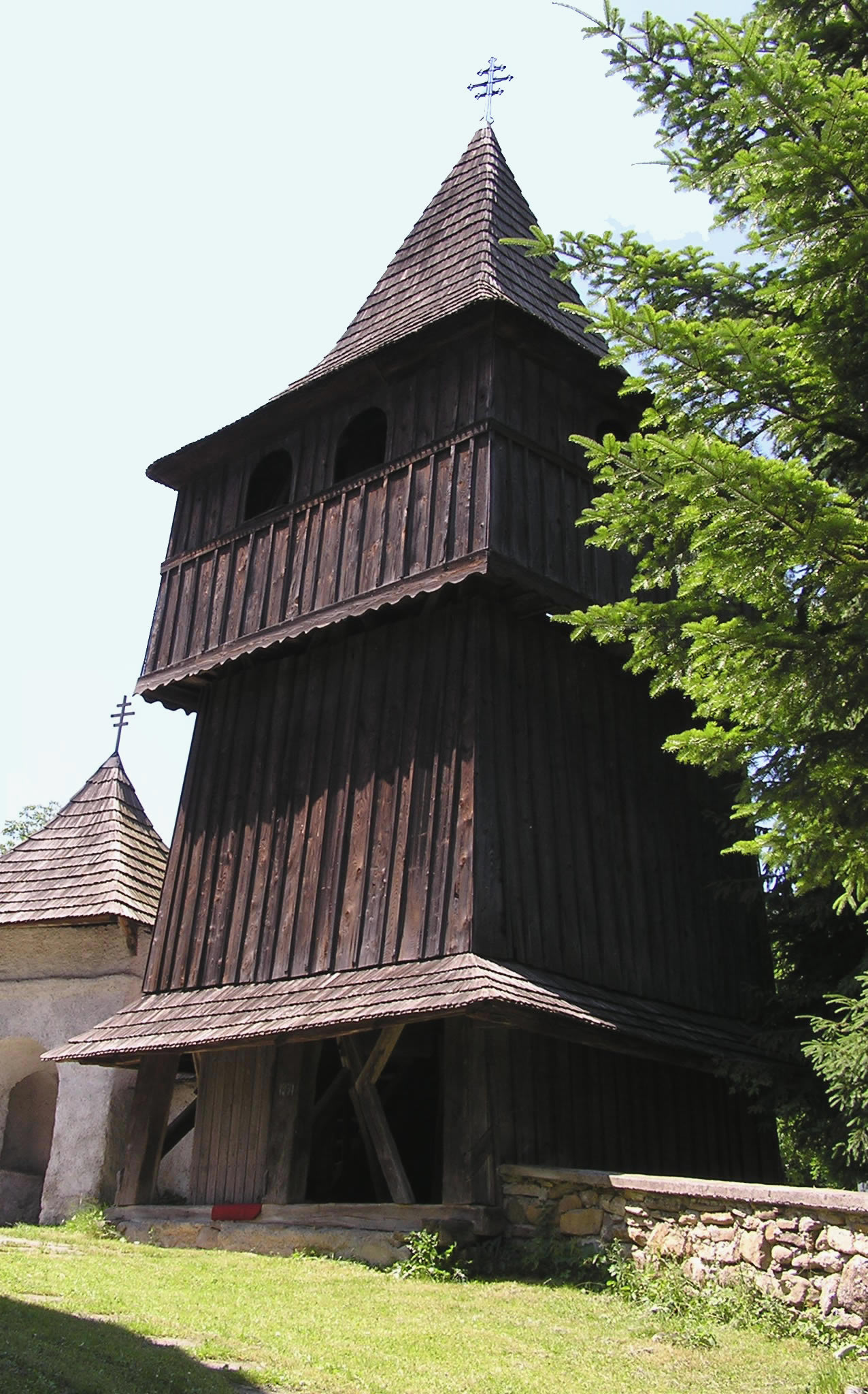 Slovakia, Presov county, Saris region, Klenov village, historical wooden Bell-tower